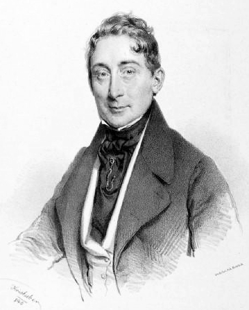 Italian opera singer Giuseppe Frezzolini (1789-1861) by Joseph Kriehuber (1800-1876).